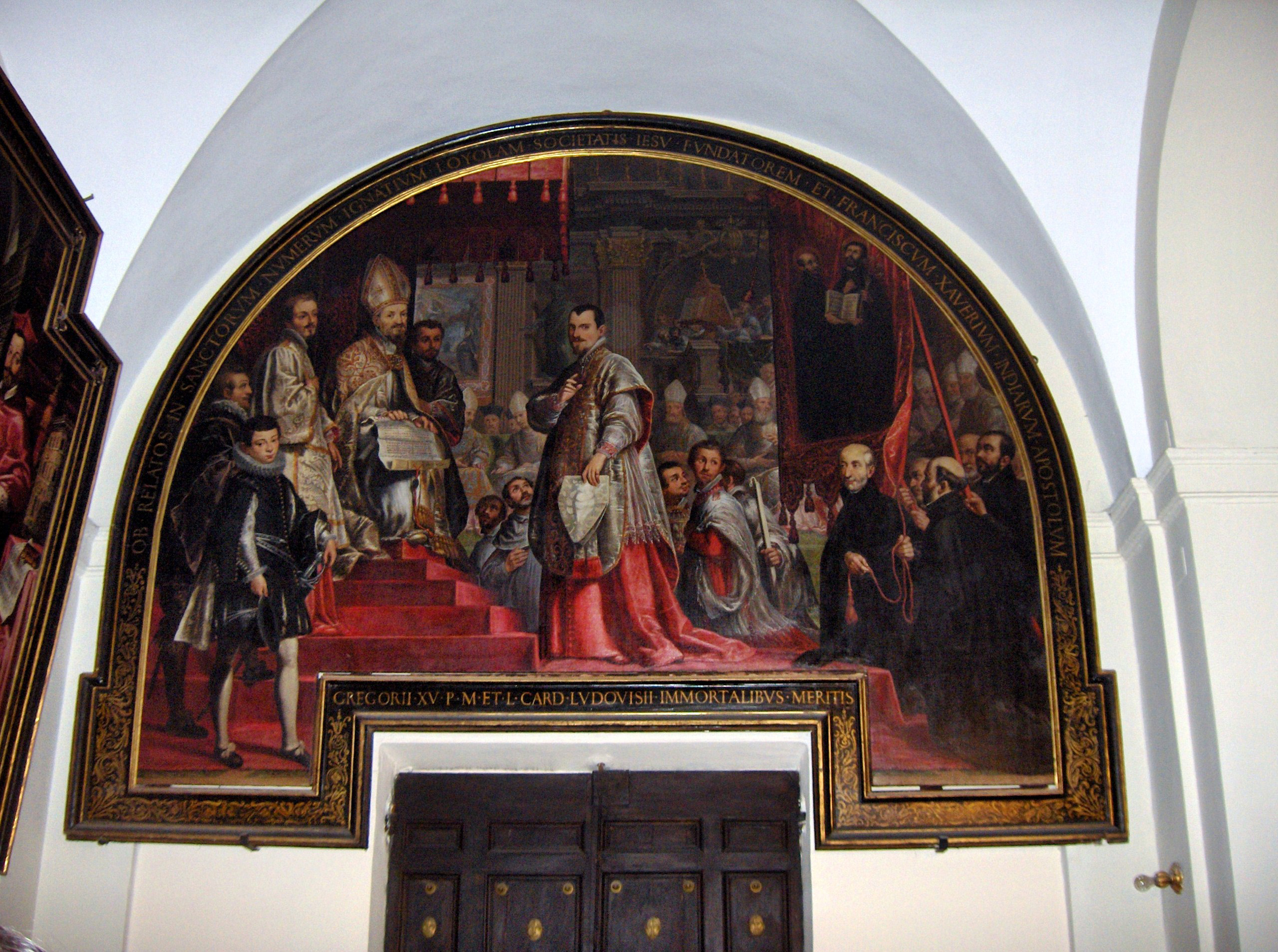 "Pope Gregory XV and his nephew Cardinal Ludovico Ludovisi", painting by an anonymous artist at the entrance of the sacristy of the church Il Gesù, Rome, Italy